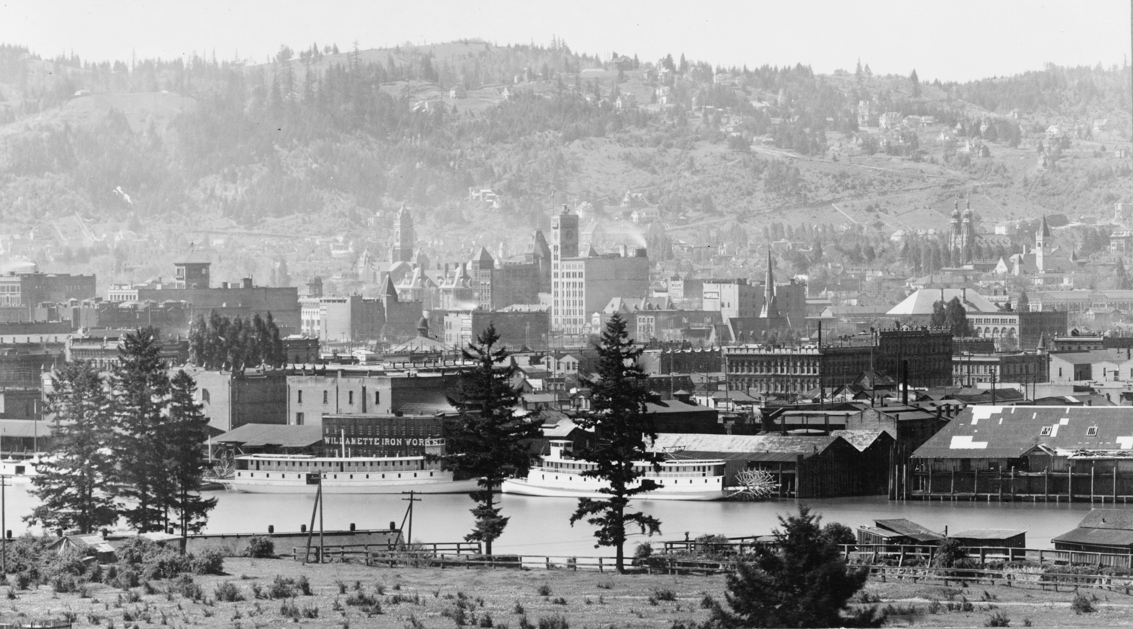 Portland, Oregon waterfront, 1898, showing newly-constructed sternwheelers fittling out at Willamette Iron Works. Other well-known buildings, some still in existence in 2009, are also visible.